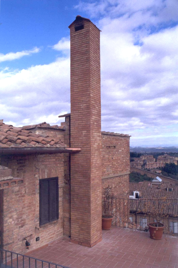 mobile site disguised as chimney, Italy